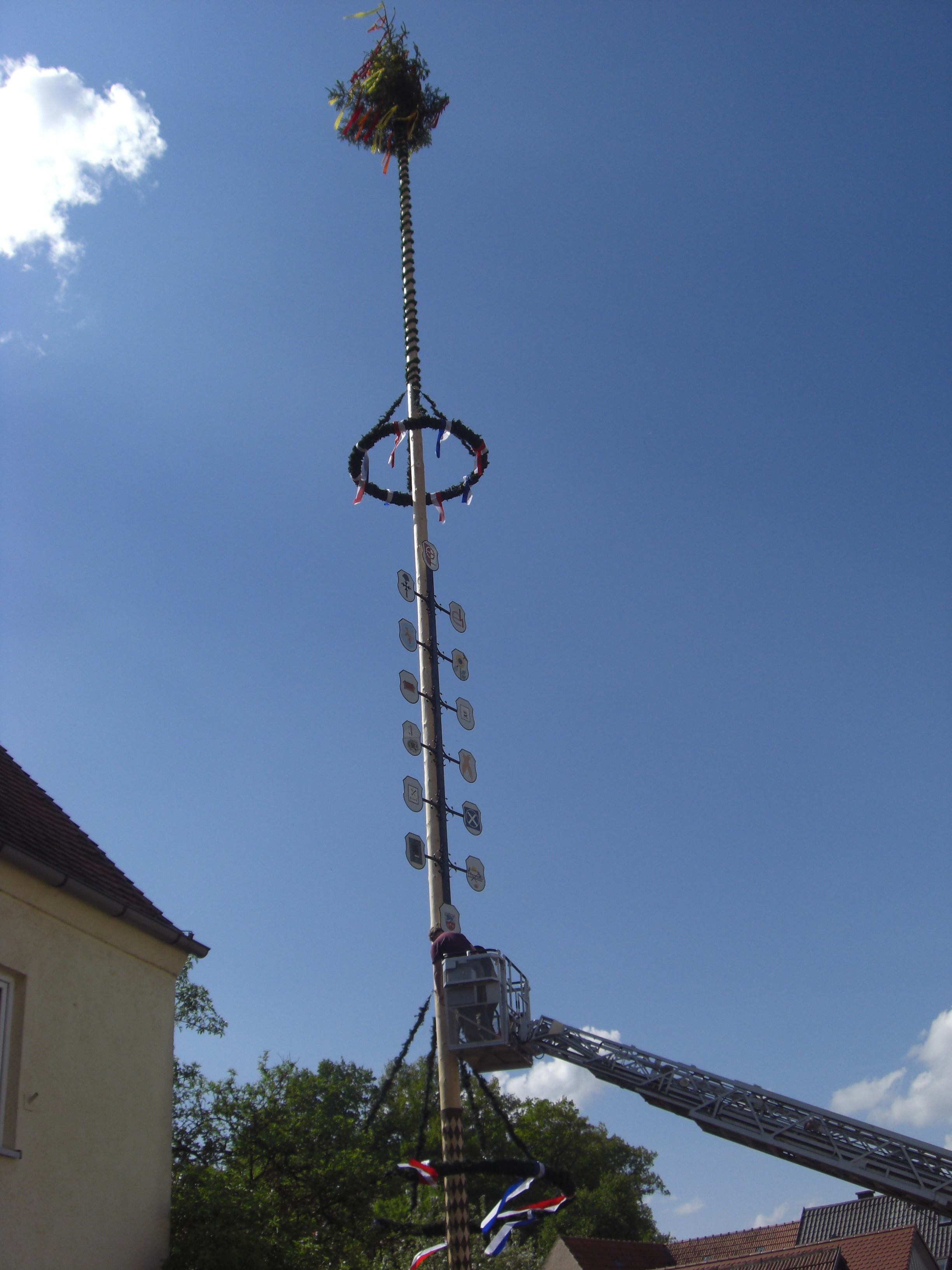 Maypole 2011 in Edenbergen